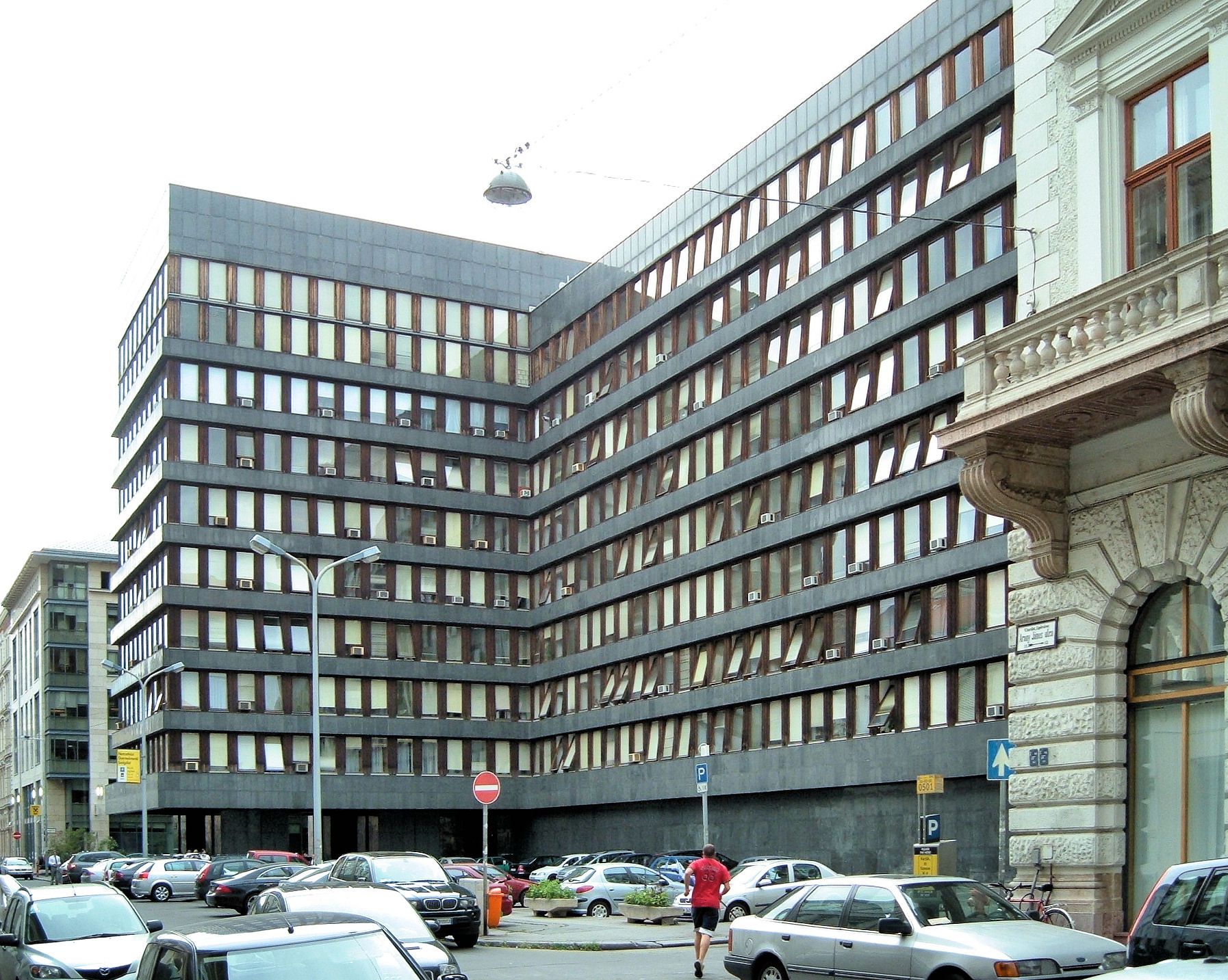 Headquarters of the State Planning Office (later ministry building), Budapest. Architect: László Hóka, 1960ies.